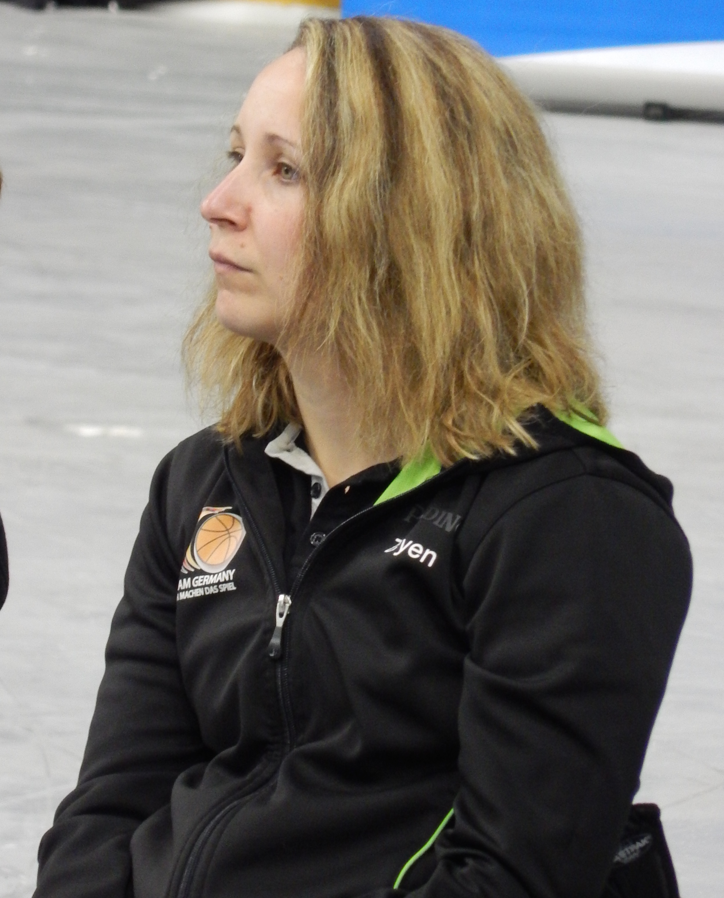 No 8 - Annika Zeyen